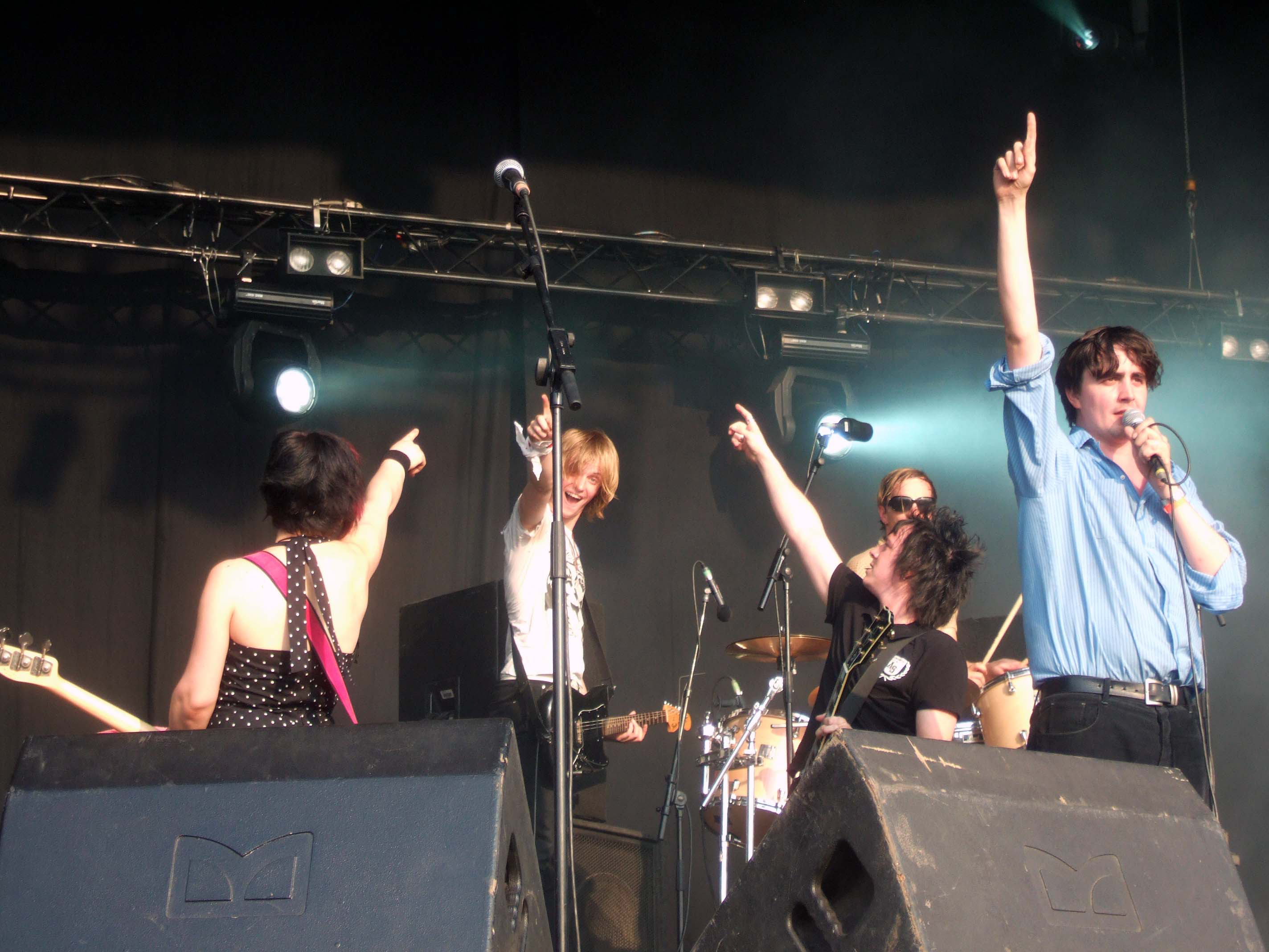 Art Brut at the Dour Festival in 2006.